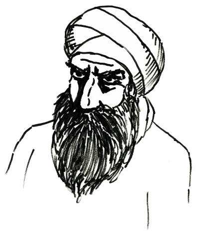 It's "Everybody Draw Mohammad" day. I hadn't planned to participate, but I was convinced by this post by Greta Christina: WHY I'M DRAWING MOHAMMAD ( I agree with every word.